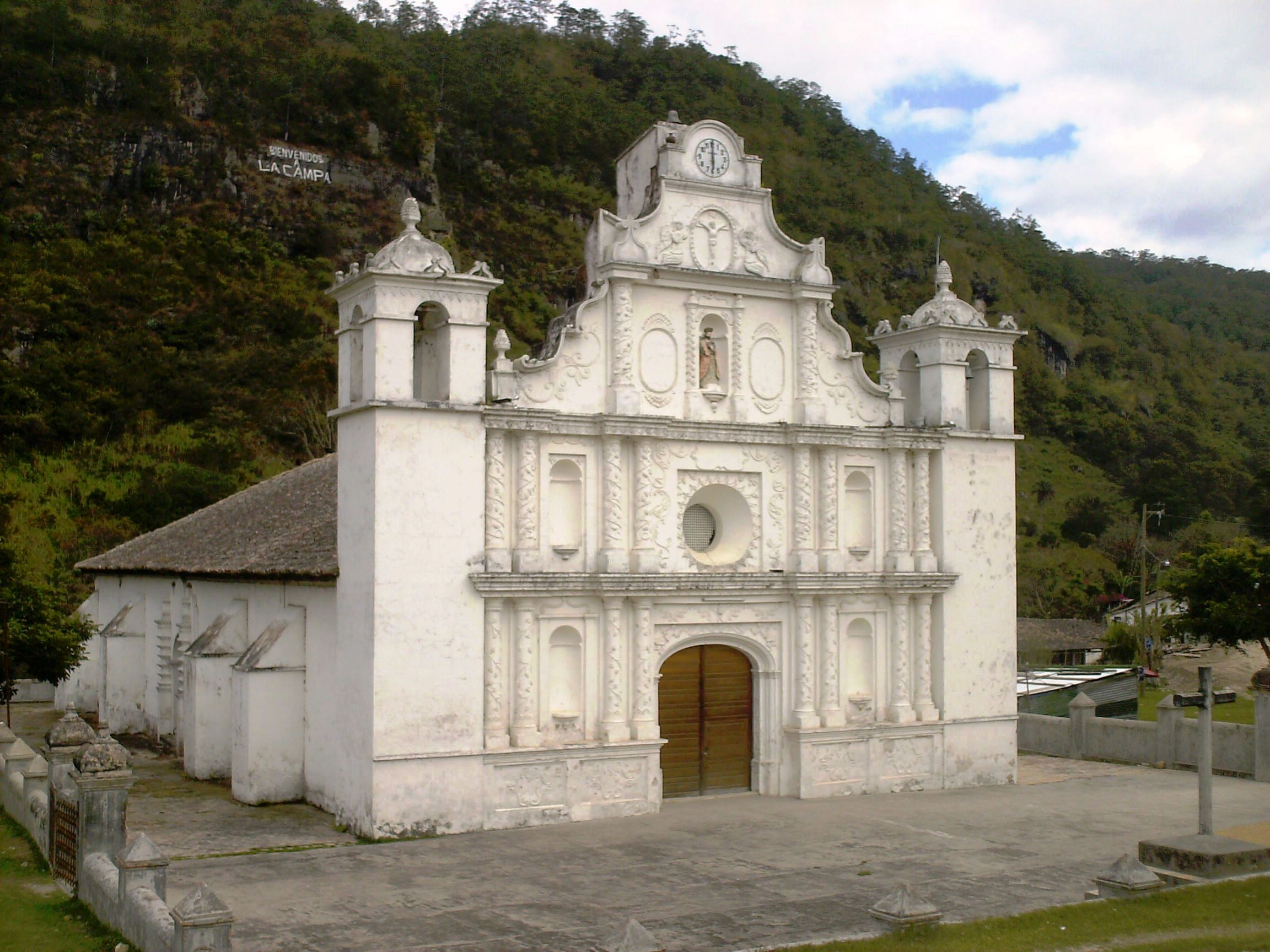 Colonial era church in La Campa, a municipality in the Honduran department of Lempira.